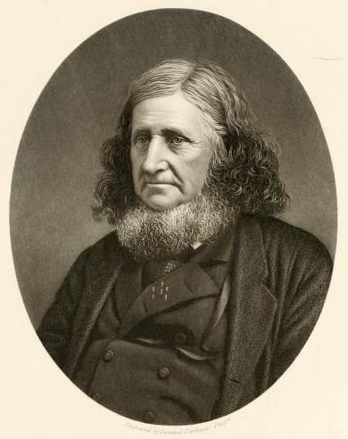 Portrait of New York state senator Lyman Truman